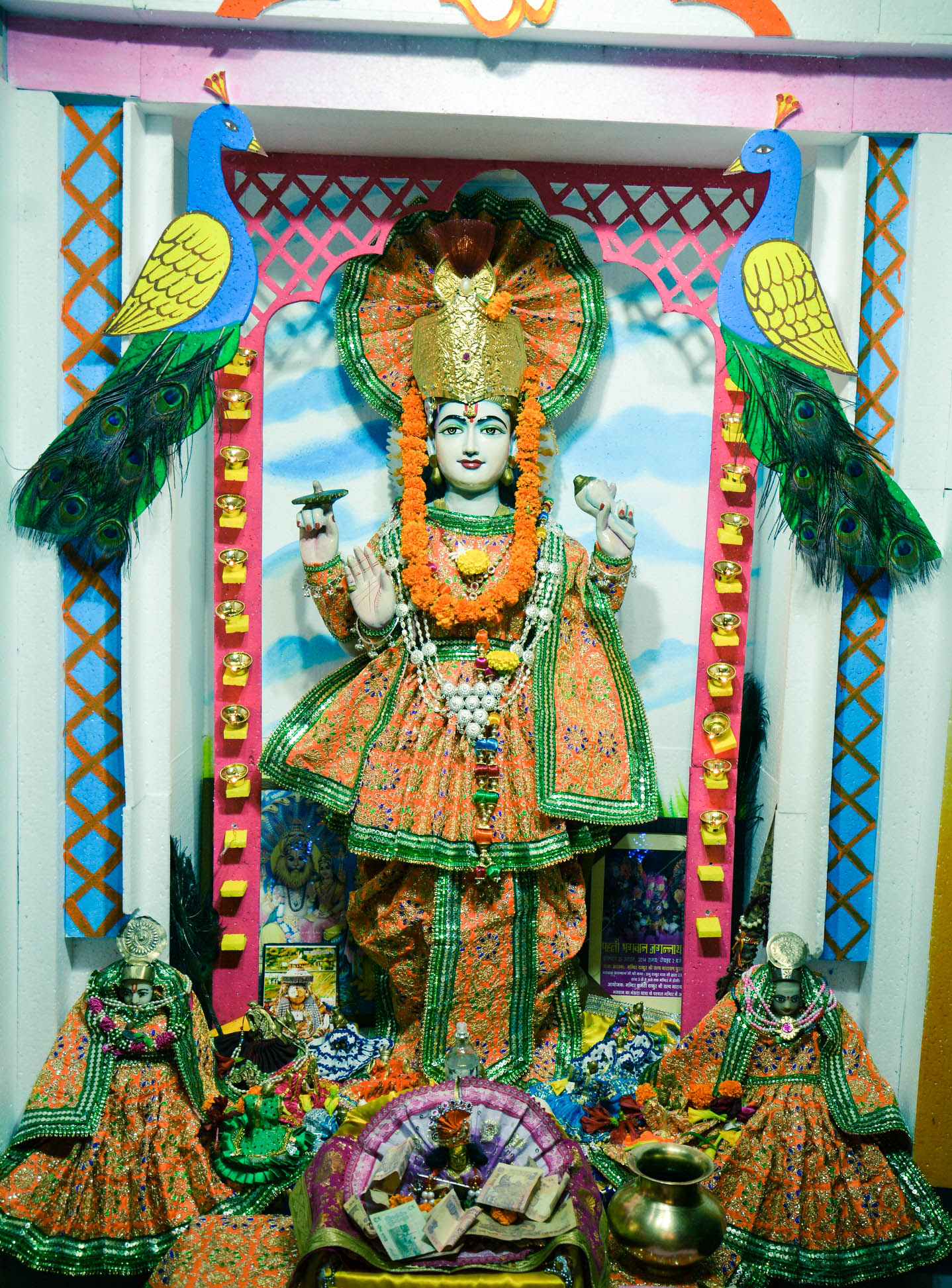 Mandir Thakur Shri Saty Narayan Ji.